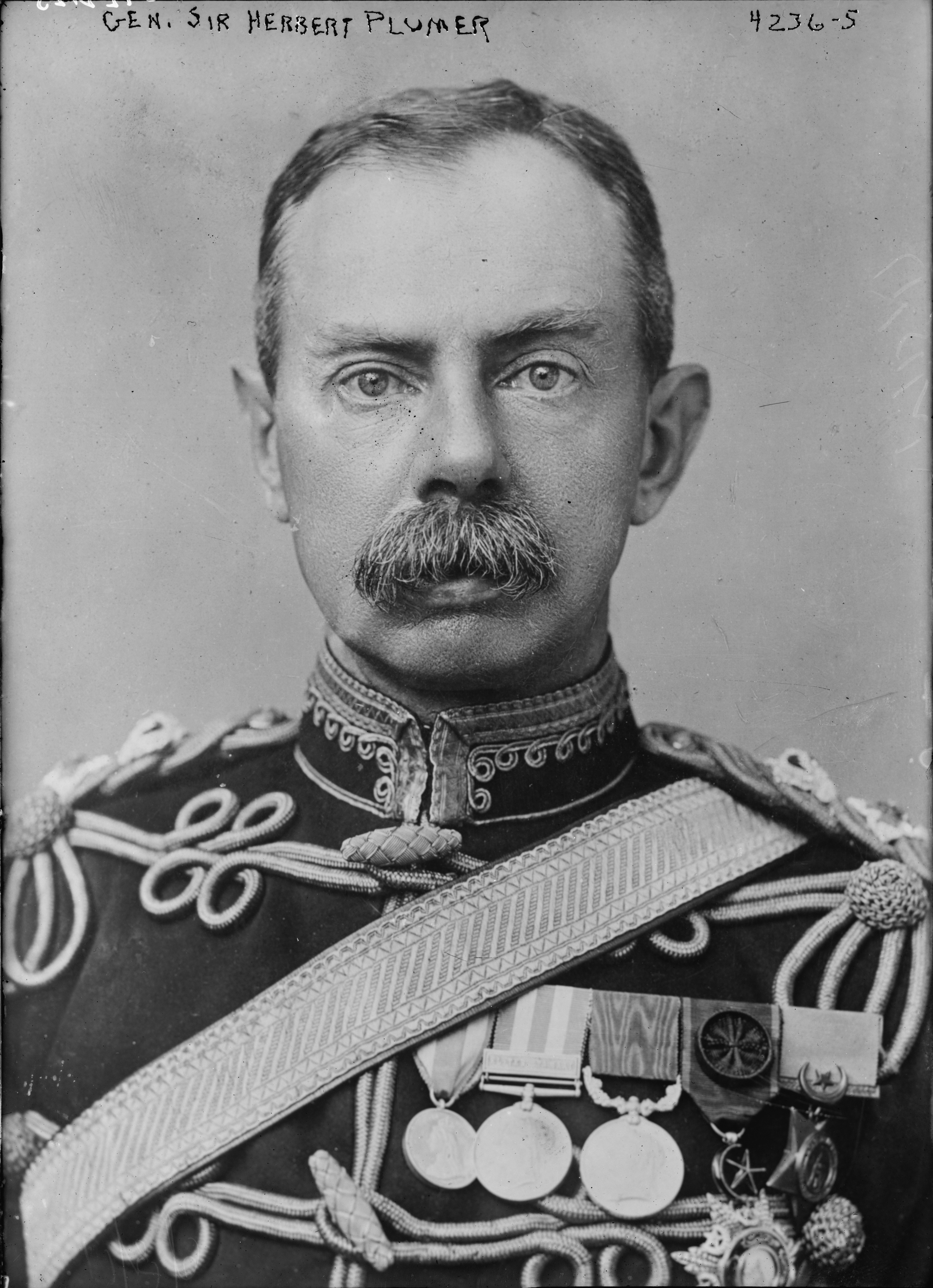 Herbert Plumer, 1st Viscount Plumer in 1917